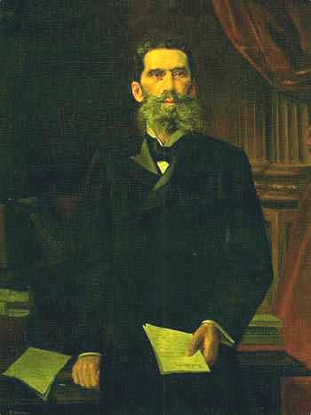 Spanish Politician Cayetano Sánchez Bustillo.